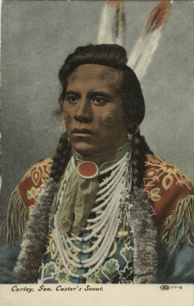 Curley, Custer's Scout. Image ID: WHi-35048